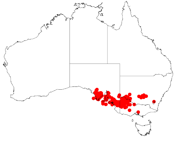 Acacia microcarpa Occurrence data from Australasia Virtual Herbarium downloaded from on 8 December 2018